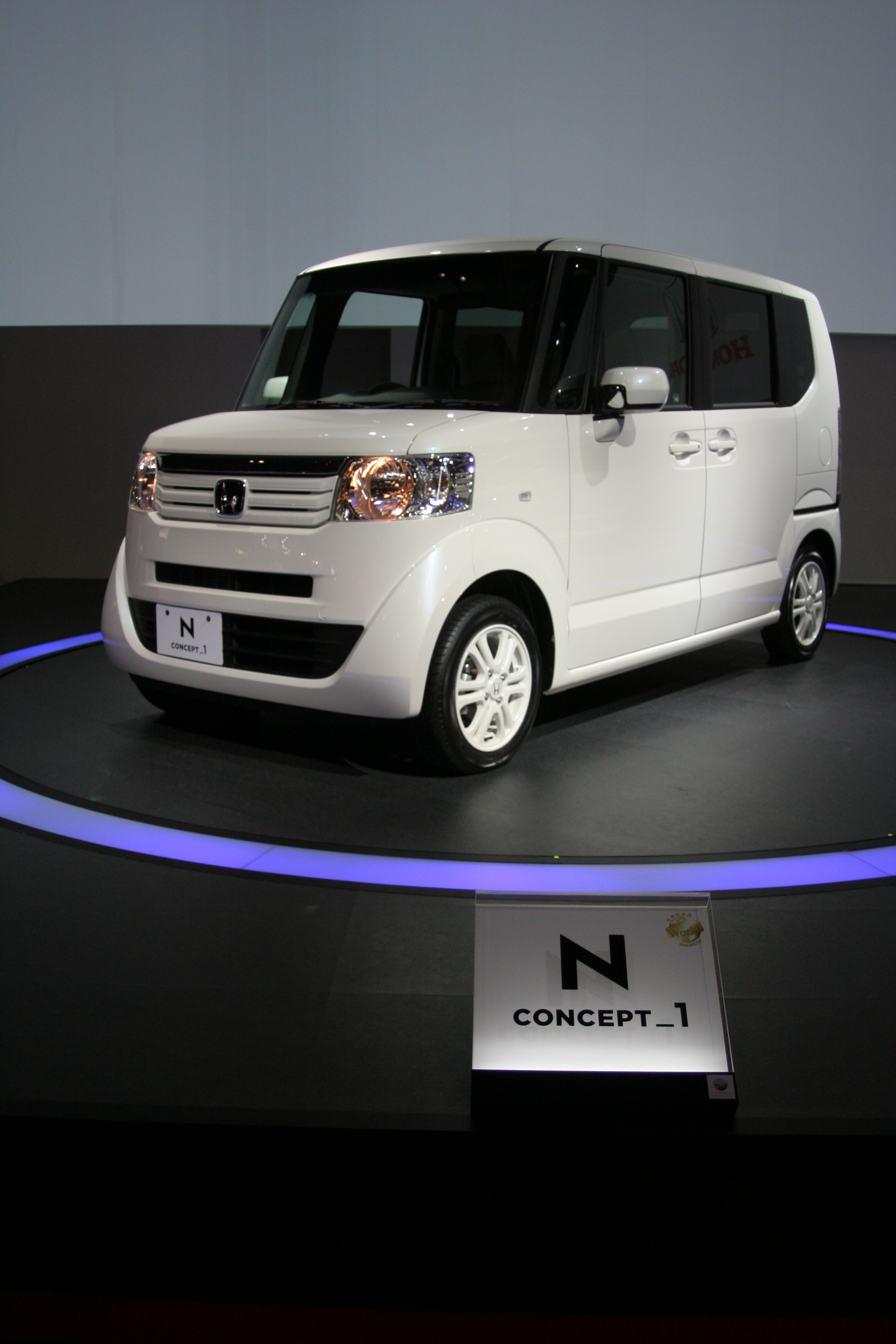 Honda N Concept 1 In Tokyo Motor Show 2011.